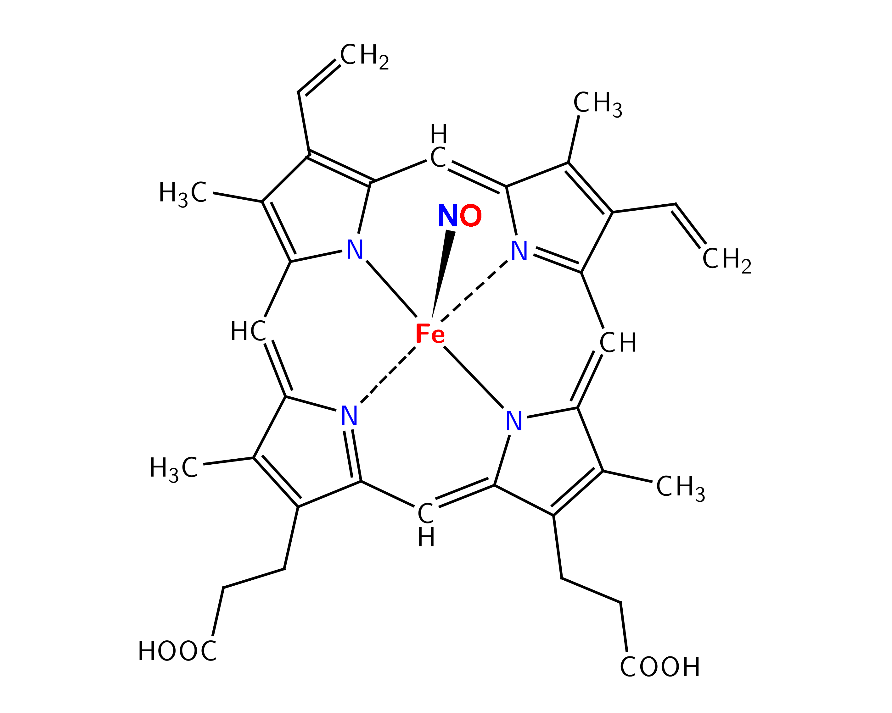 nitrosylheme, nitrosyl-heme, heme-NO, nitroso-heme, haem-NO, nitroso-haem, also called cooked cured-meat pigment (Pegg & Shaidi, 2000, "The color of meat" in "Food & Nutrition, Press Inc., Trumbull, Connecticut, USA), released from NO-myoglobin by cooking cured meat (Honikel K.O., 2008, Meat Science, 78, 68-76)